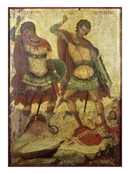 Saint-George-and-Saint-Mercurius